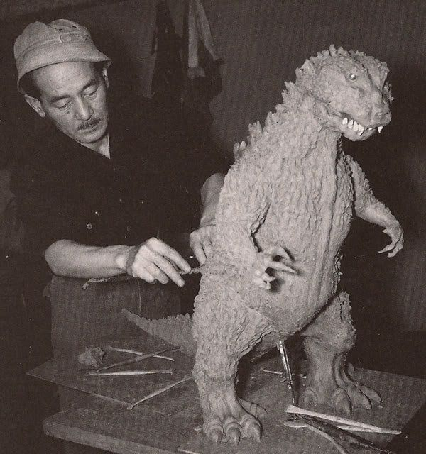 Teizô Toshimitsu sculpting the final Godzilla design.